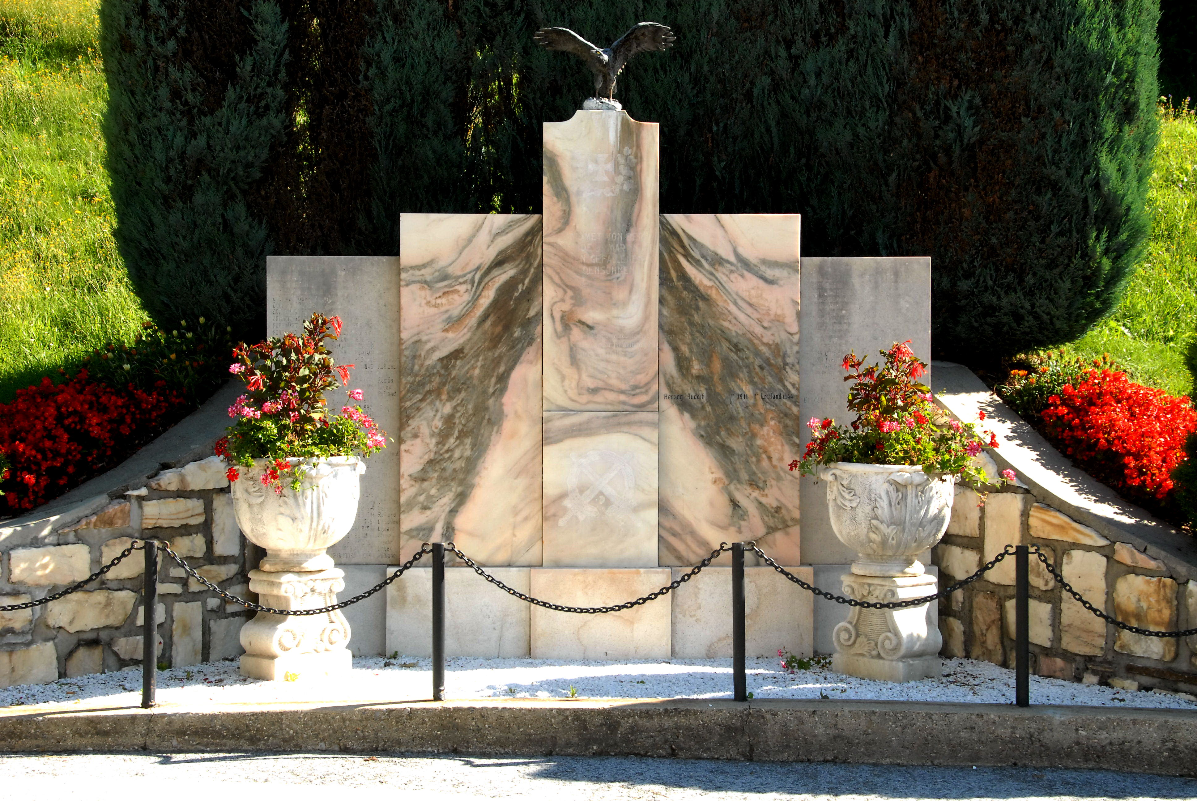 War memorial at Saint Martin on Techelsberg, municipality Techelsberg am Woerther See, district Klagenfurt Land, Carinthia, Austria, EU